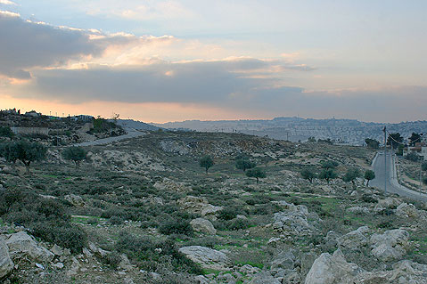 South Jerusalem, Givat HaMatos, "hill of the airplane", where a plane crashed in 1967.